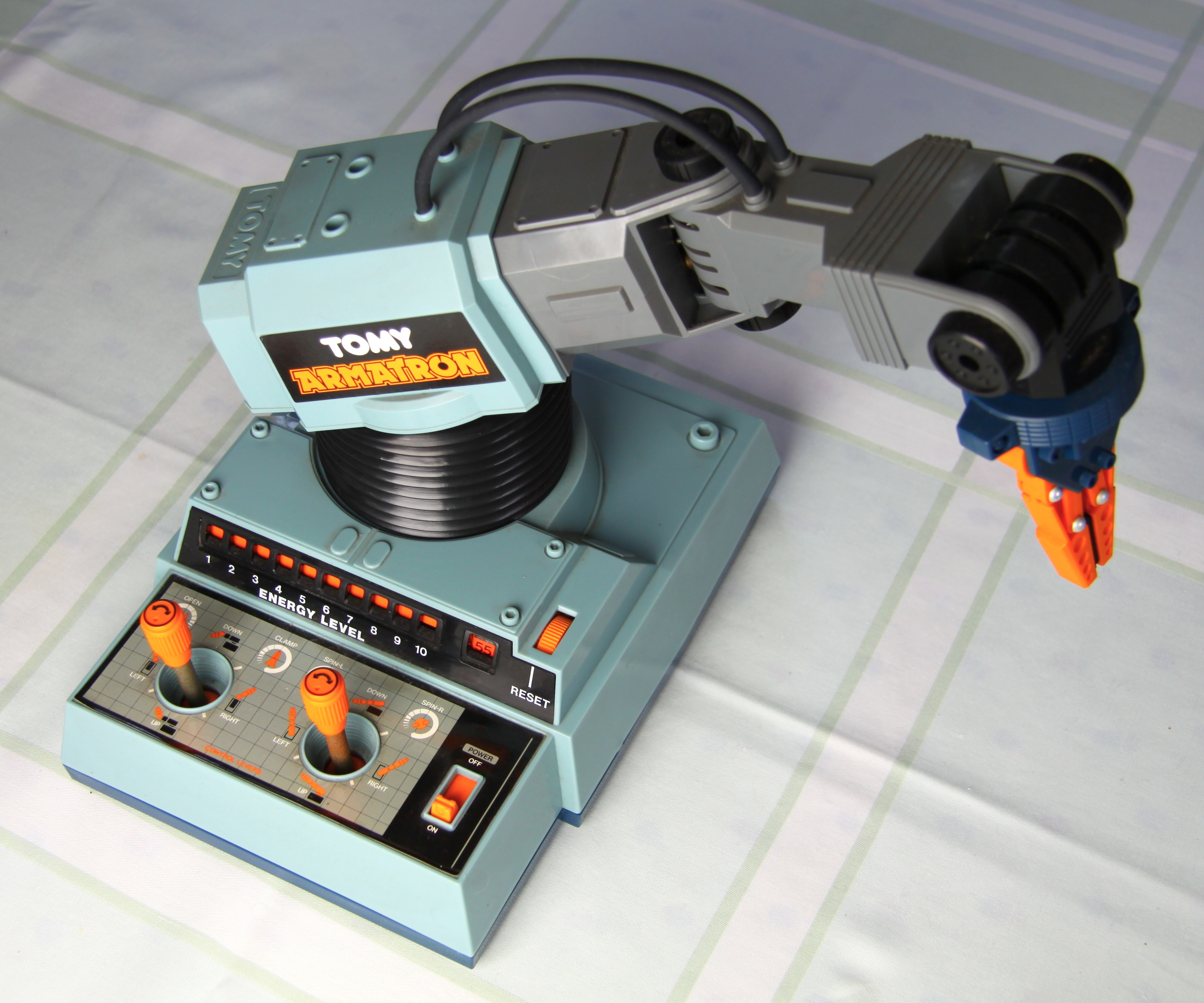 A TOMY Armatron toy robot with accessories